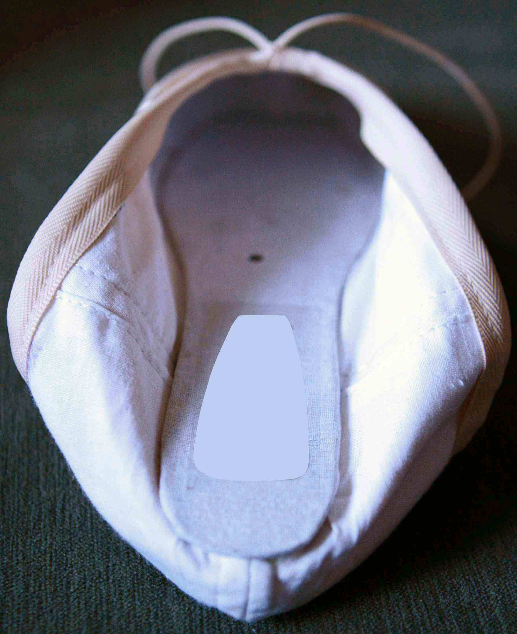 The shank of a pointe shoe. The shank is covered by thin fabric, which in turn directly contacts the dancer's foot. This shoe has a "full shank," meaning that the shank runs the length of the shoe. Note: I masked the manufacturer's name and logo to avoid any copyright problems.